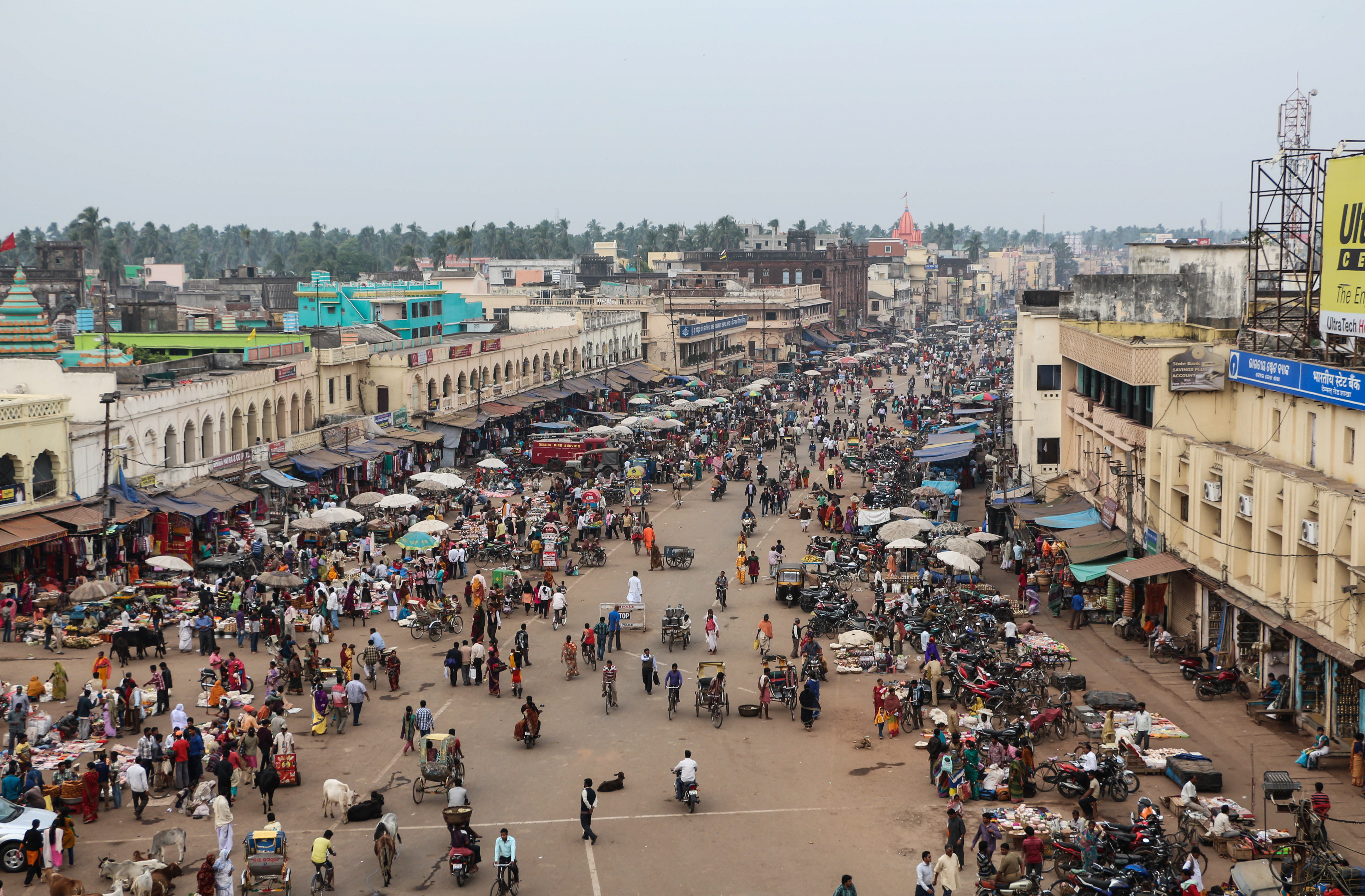 Grand Road, Puri, India